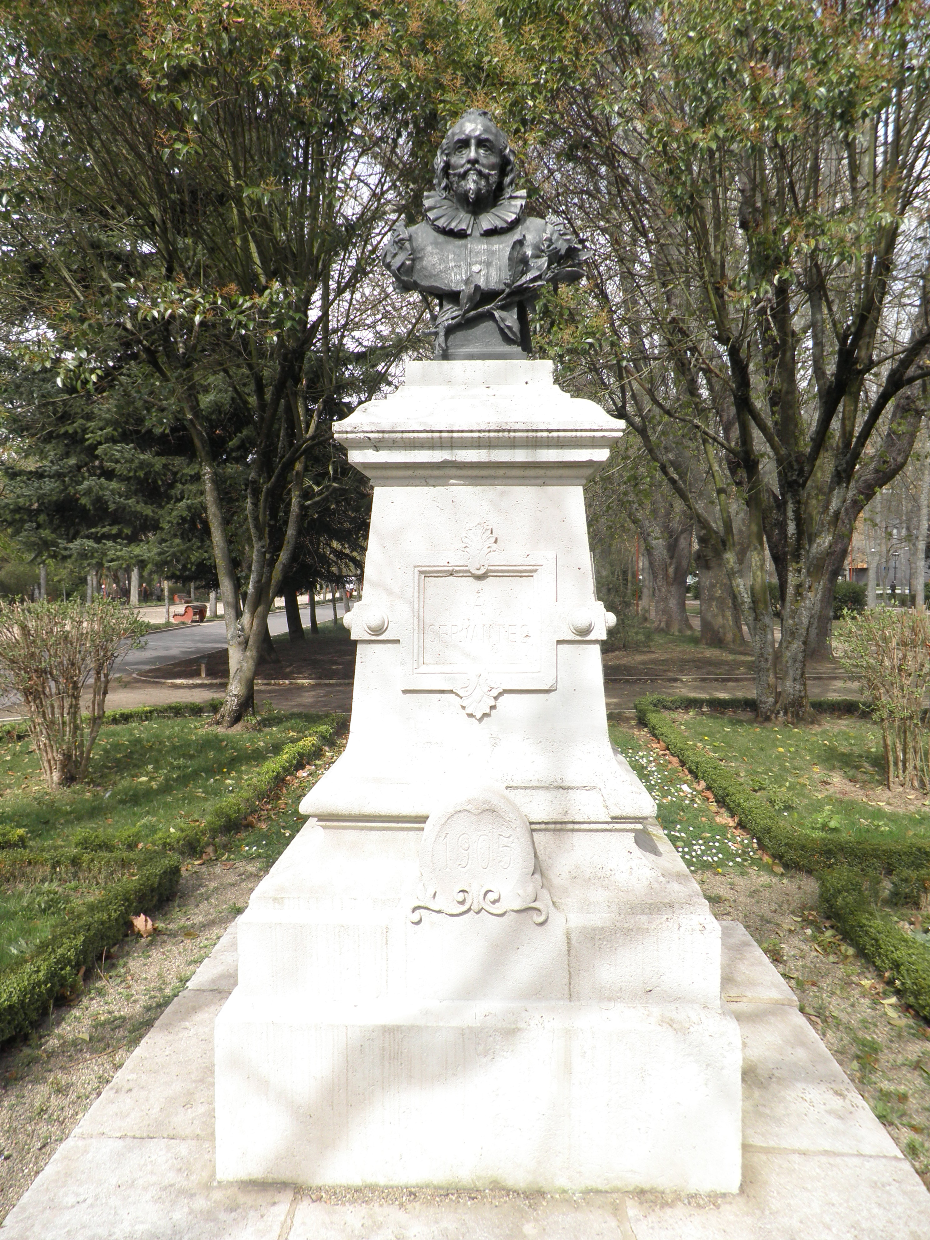 Miguel de Cervantes bust in Burgos, erected in 1905